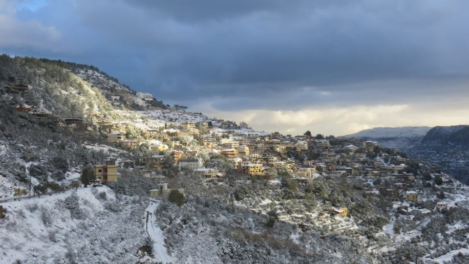 Picture of my village Al Bennay.